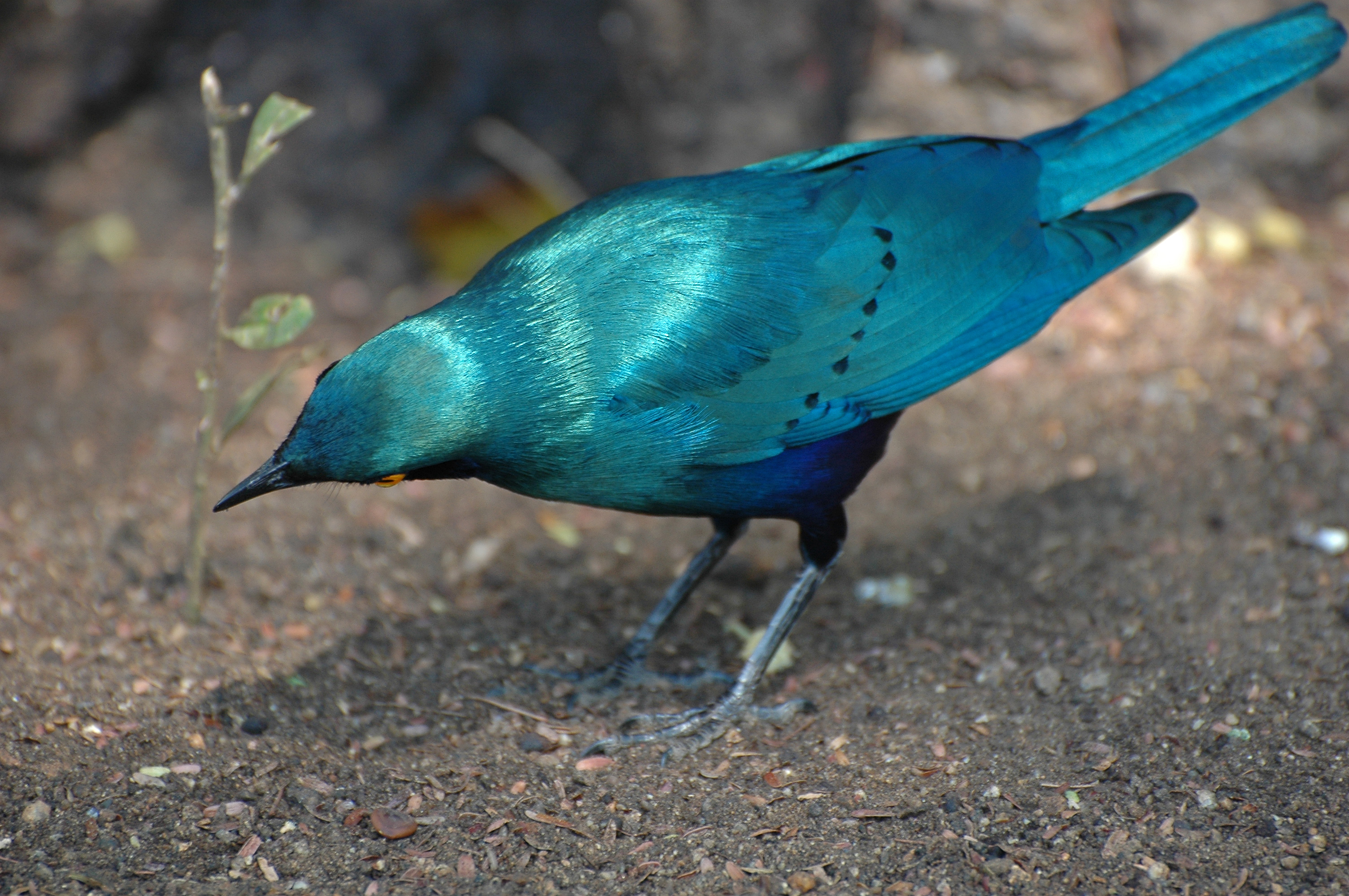 Kruger National Park,Cape Glossy Starling